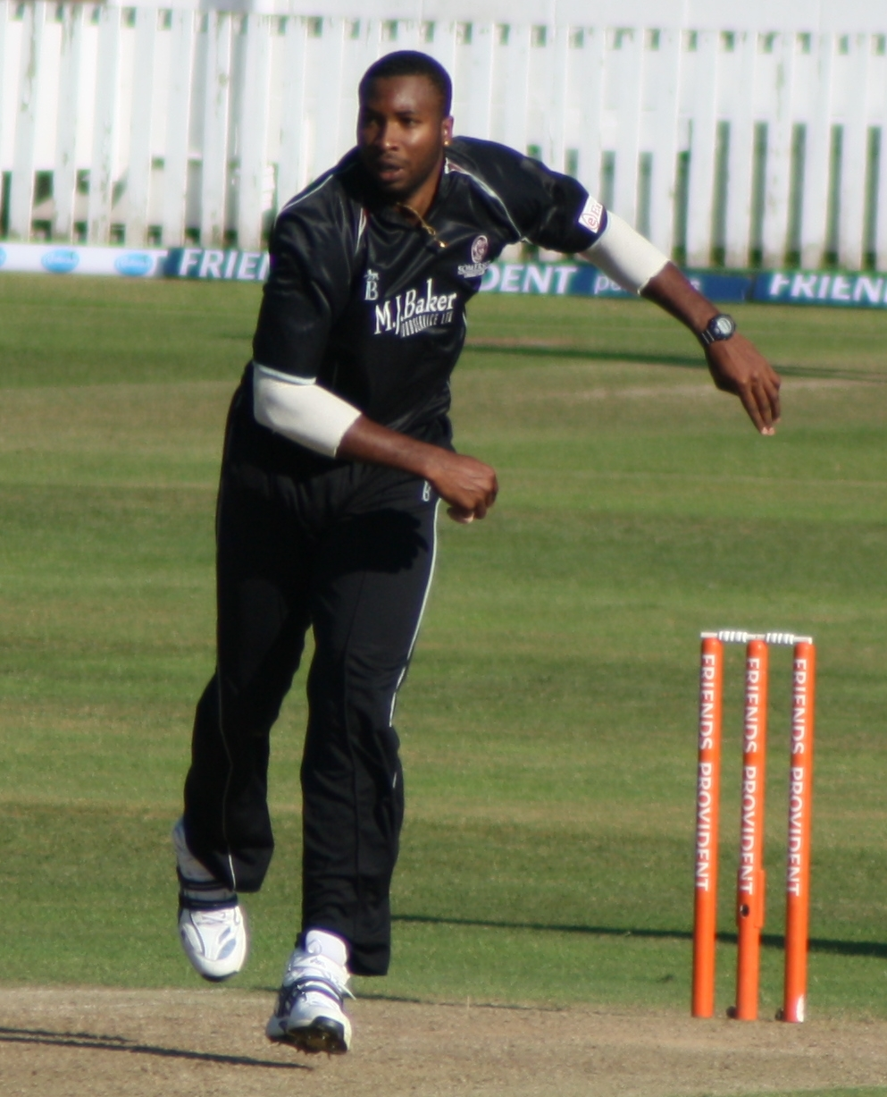 Kieron Pollard bowling for Somerset in a FPt20 match against Essex at the County Ground, Taunton.